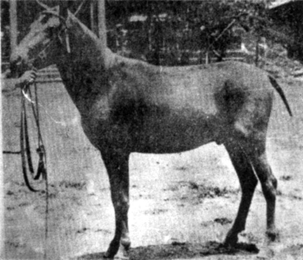 hairless horse